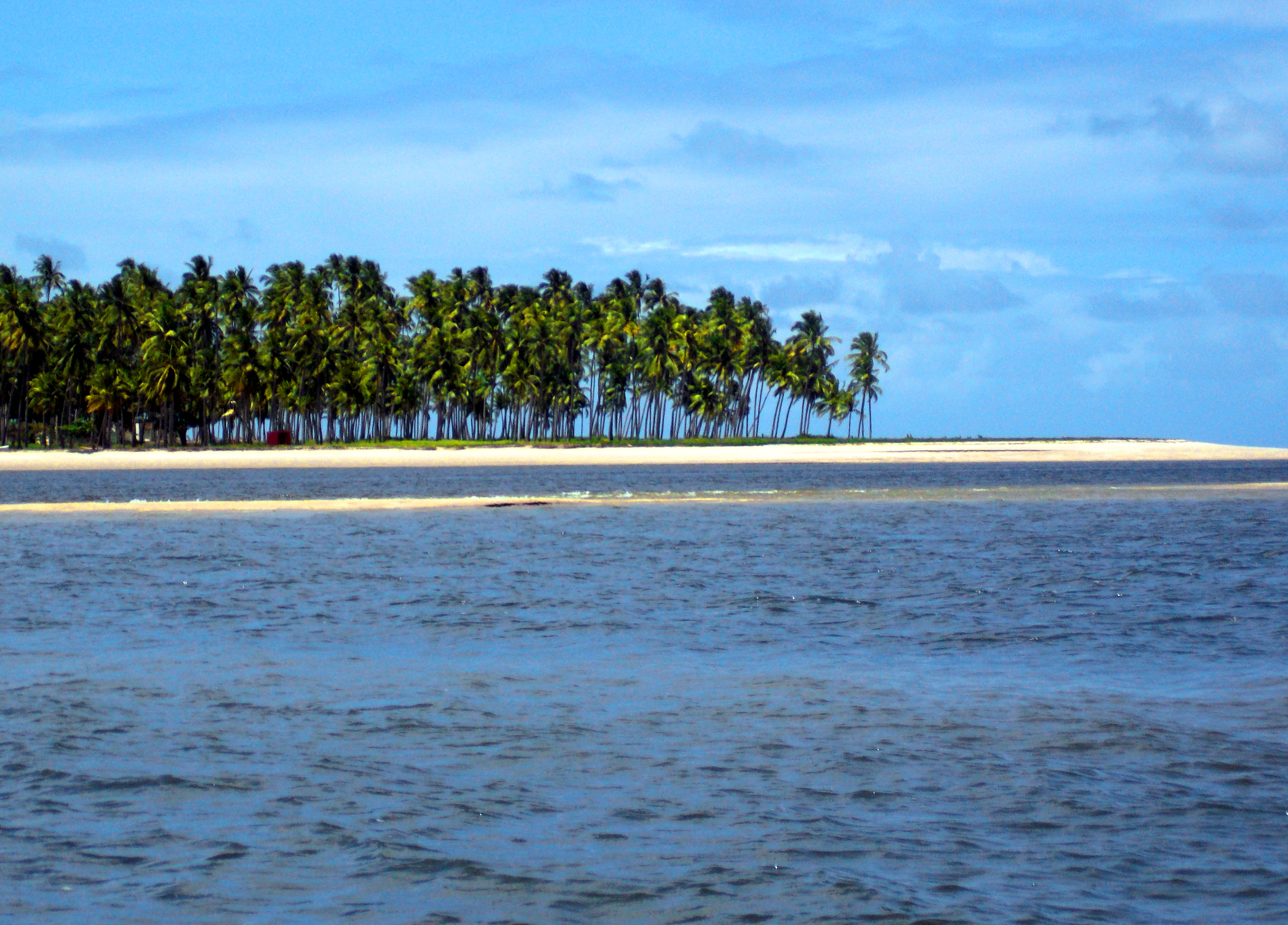 Brazil natural resources, fauna and places